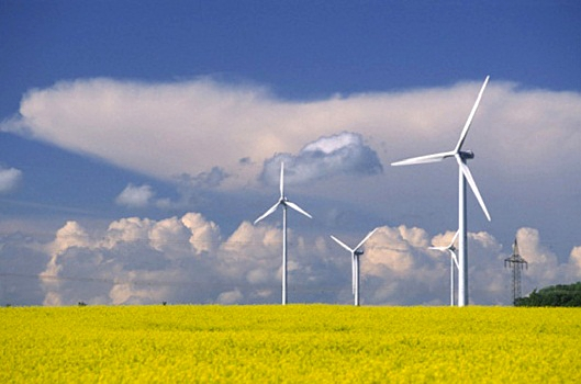 A set of wind turbines near Kavarna, Bulgaria